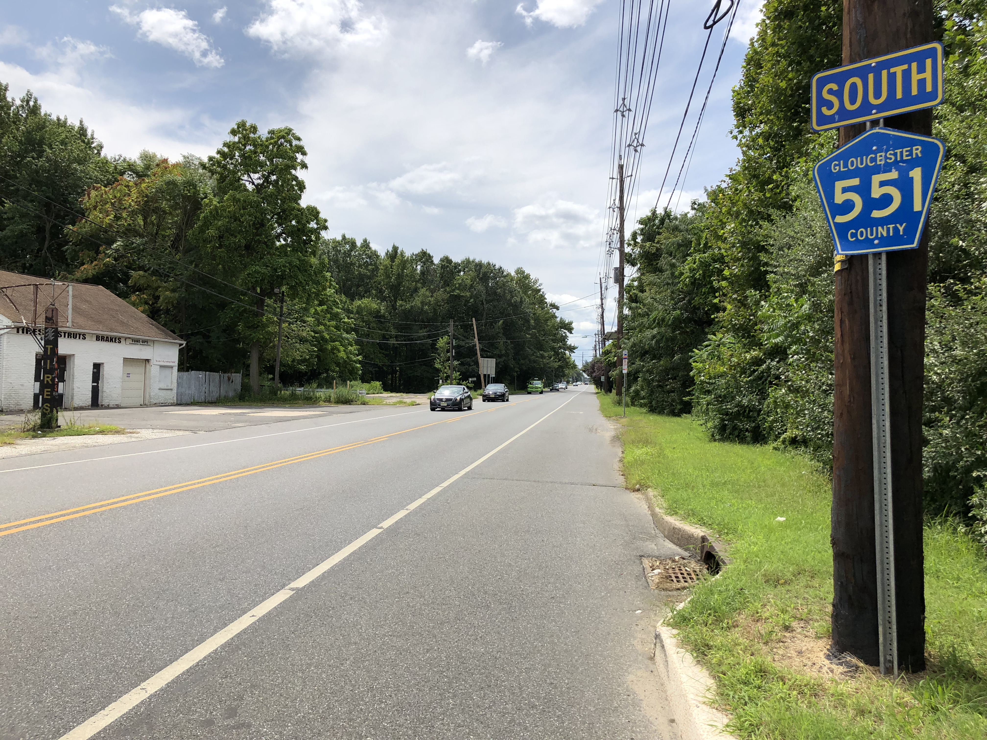 View south along Gloucester County Route 551 (Broadway) at Cordelia Avenue in Deptford Township, Gloucester County, New Jersey